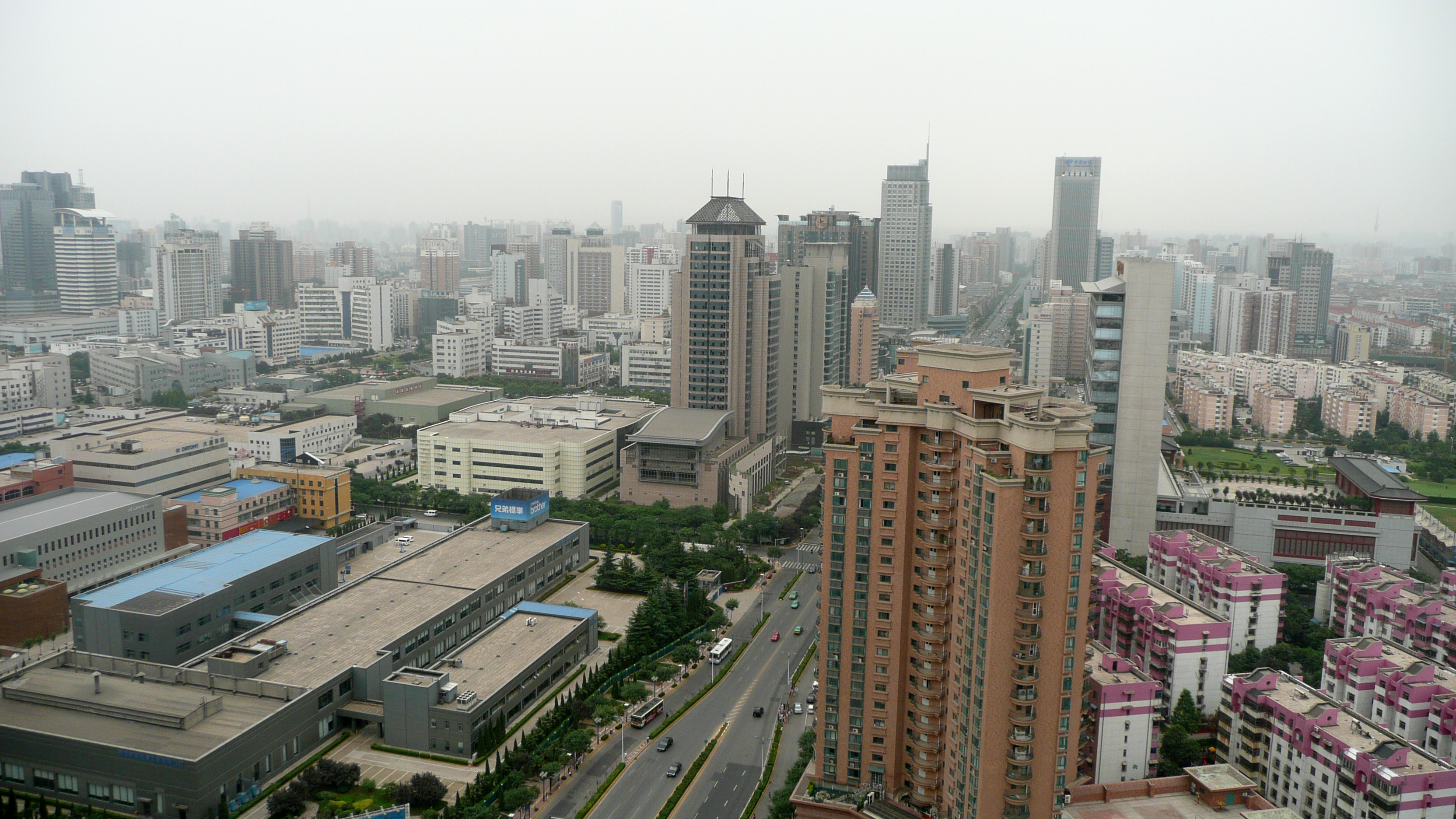 View on High-Tech Park Xi'an